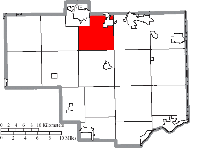 Map of the municipal and township boundaries of Columbiana County, Ohio, United States, as of the 2000 census, with the location of Salem Township highlighted. Township borders are shown only in unincorporated areas in order to differentiate incorporated and unincorporated areas more clearly.